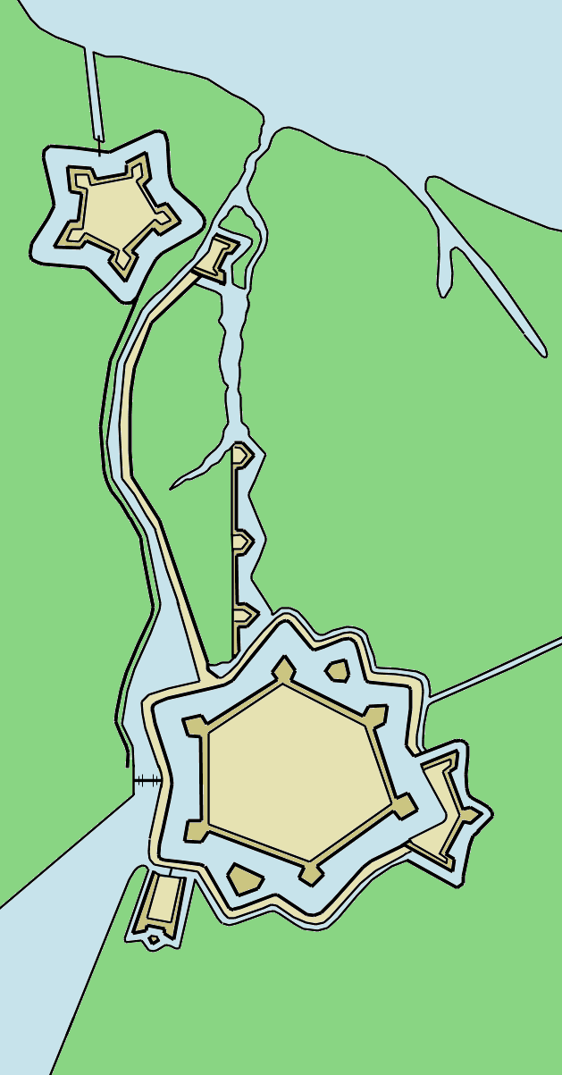 Fortresstown of Steenbergen